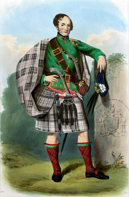 "Macpherson". A plate illustrated by R. R. McIan, from James Logan's The Clans of the Scottish Highlands, published in 1845.